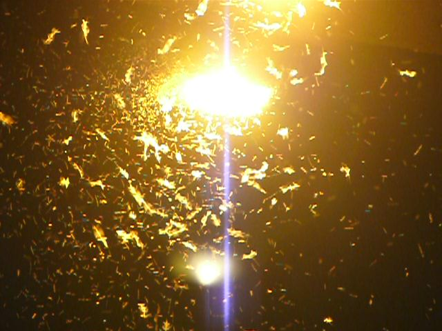 Lignt pollution killing Aeroplankton in Meung-sur-Loire, above the river Loire (France). A lot of insects are trapped by light. (And during all the day thousands of swallows hunt them). During the night a large number of bats and spiders captured in the unusually high number because of phenomena of light pollution where it exists (as here).